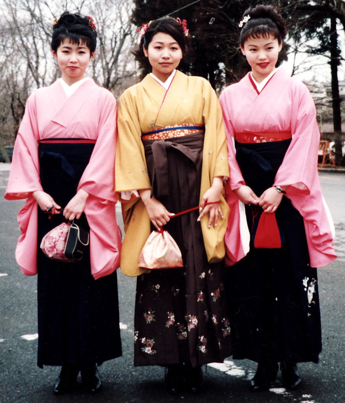 Young Japanese women in traditional graduation garb: furisode and hakama.